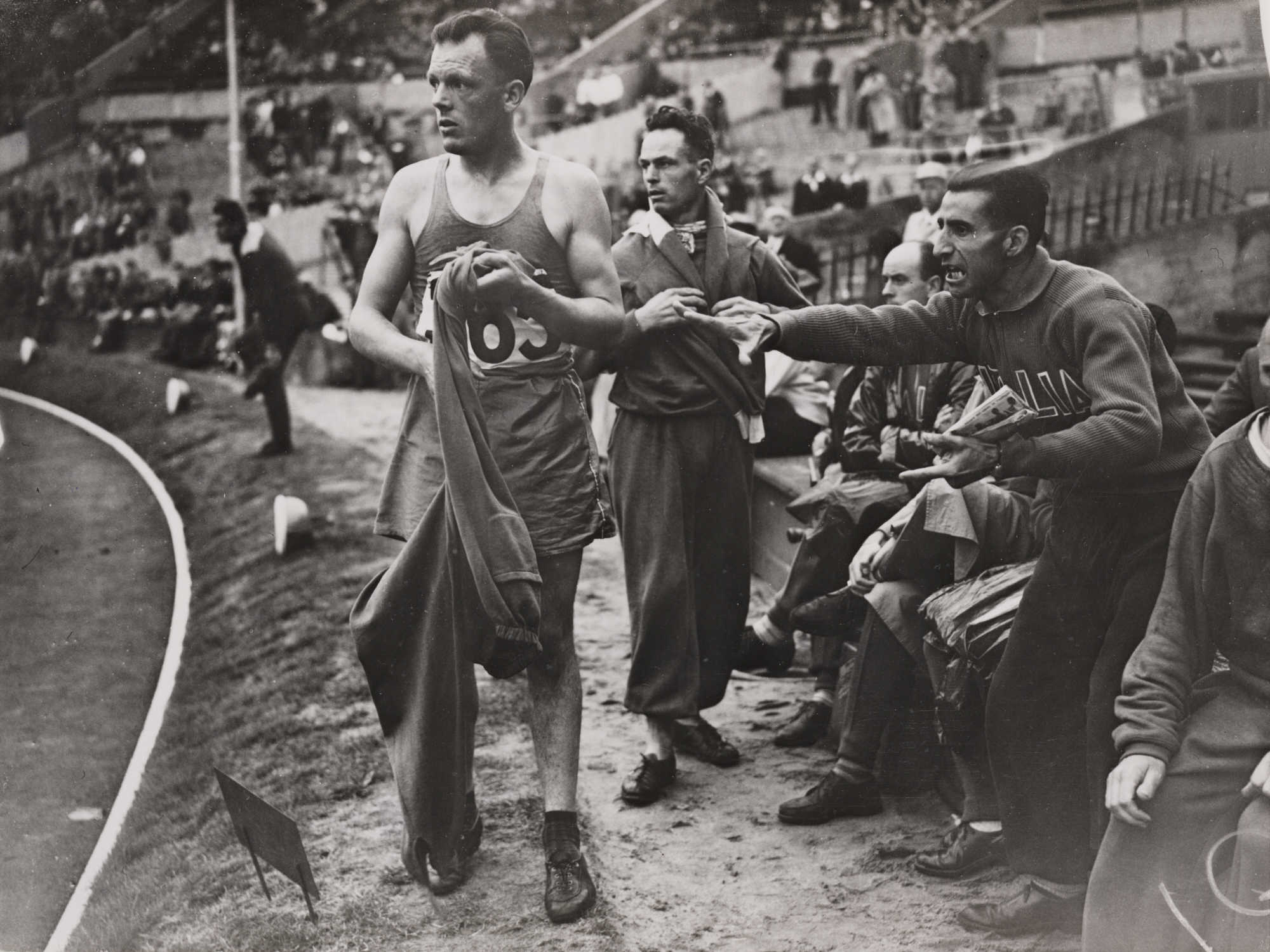 Italian and French Olympic competitors shout in protest as Louis Chevalier, of France, is disqualified during heat two of the 10K walk held at Wembley. Daily Herald Archive at the National Media Museum We're happy for you to share this digital image within the spirit of The Commons. Certain restrictions on high quality reproductions of the original physical version of apply though; if you're unsure please visit the National Media Museum website. For obtaining reproductions of selected images please go to the Science and Society Picture Library.